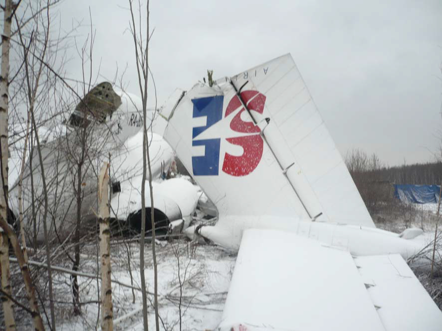 Wreckage of Dagestan Airlines Flight 372 (Tupolev Tu-154M)